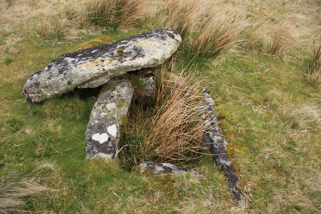 Blakey Tor cist A well preserved burial chamber with displaced lid but no obvious surrounding stones.